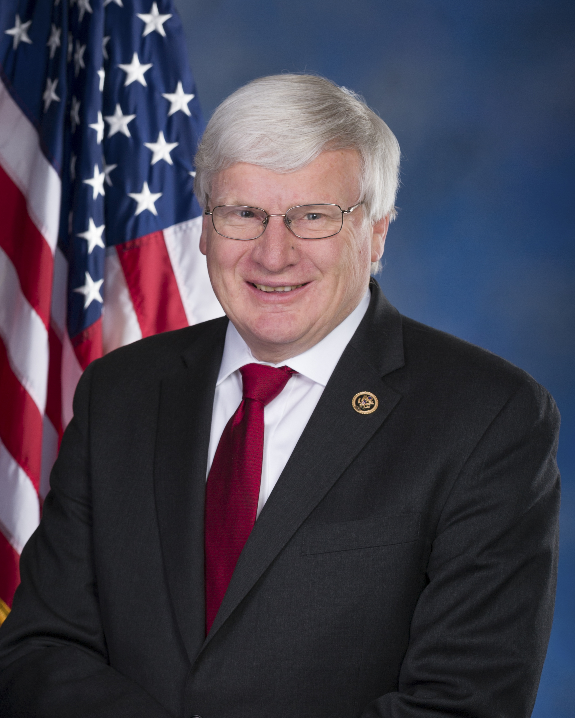 Glenn Grothman official photo, 114th Congress